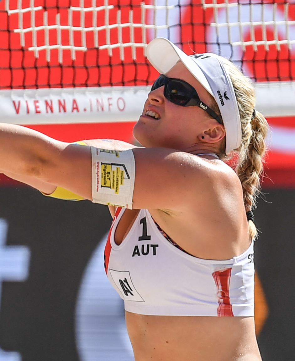 29/7/17, Vienna, Austria, sports, beach volleyball, FIVB Beach Volleyball World Championships.